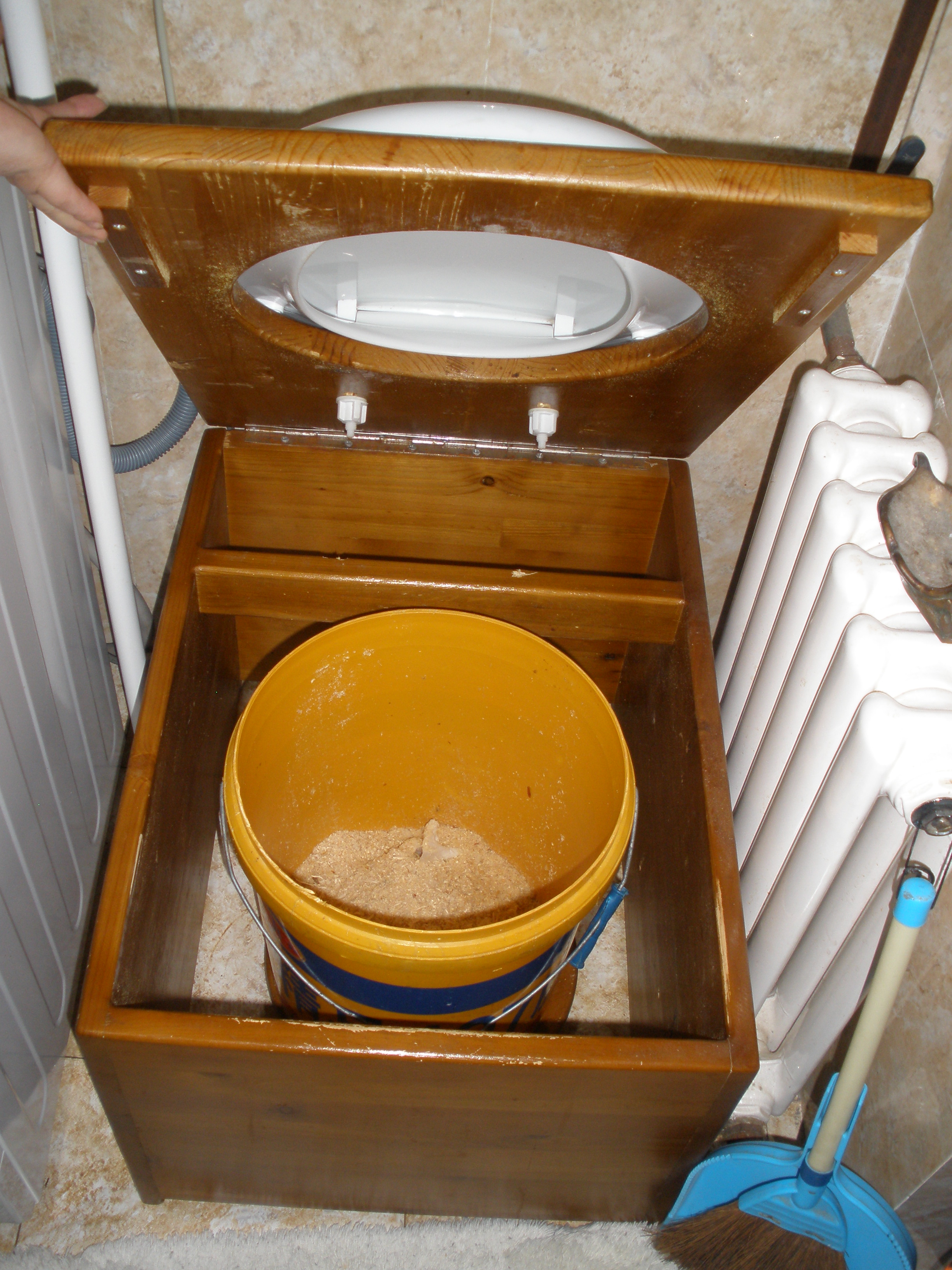 Composting toilets (which are engineered and where composting takes place directly underneath the user interface)